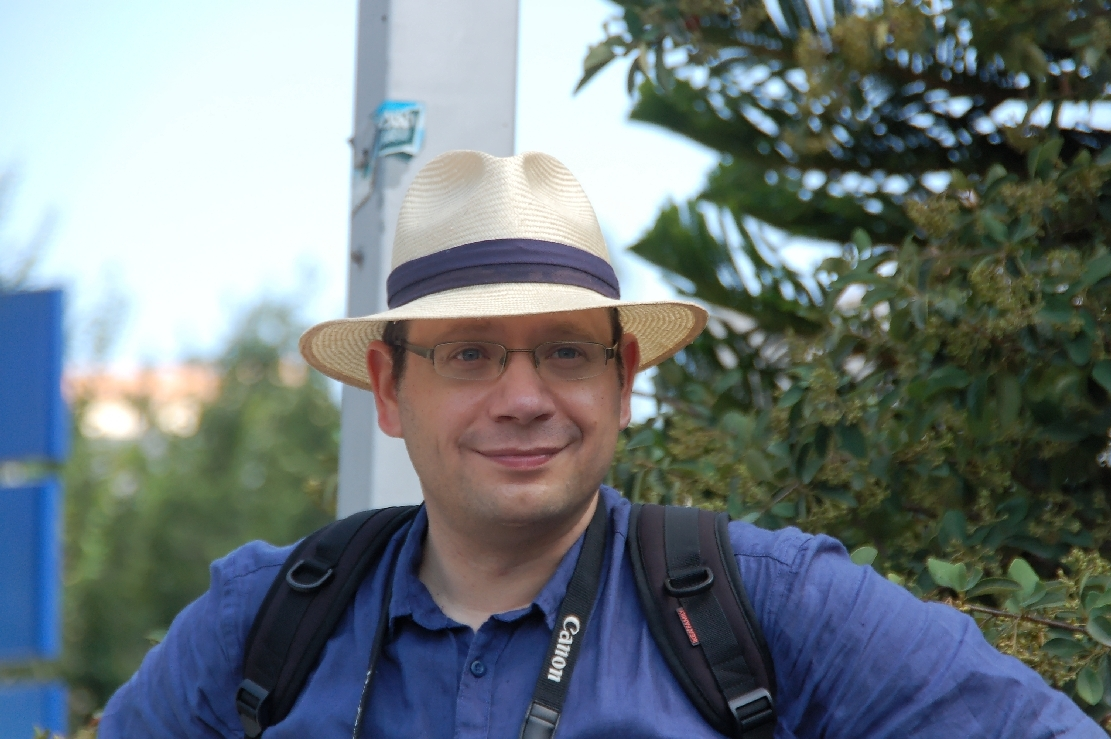 Impressions Wikimania 2011 Haifa